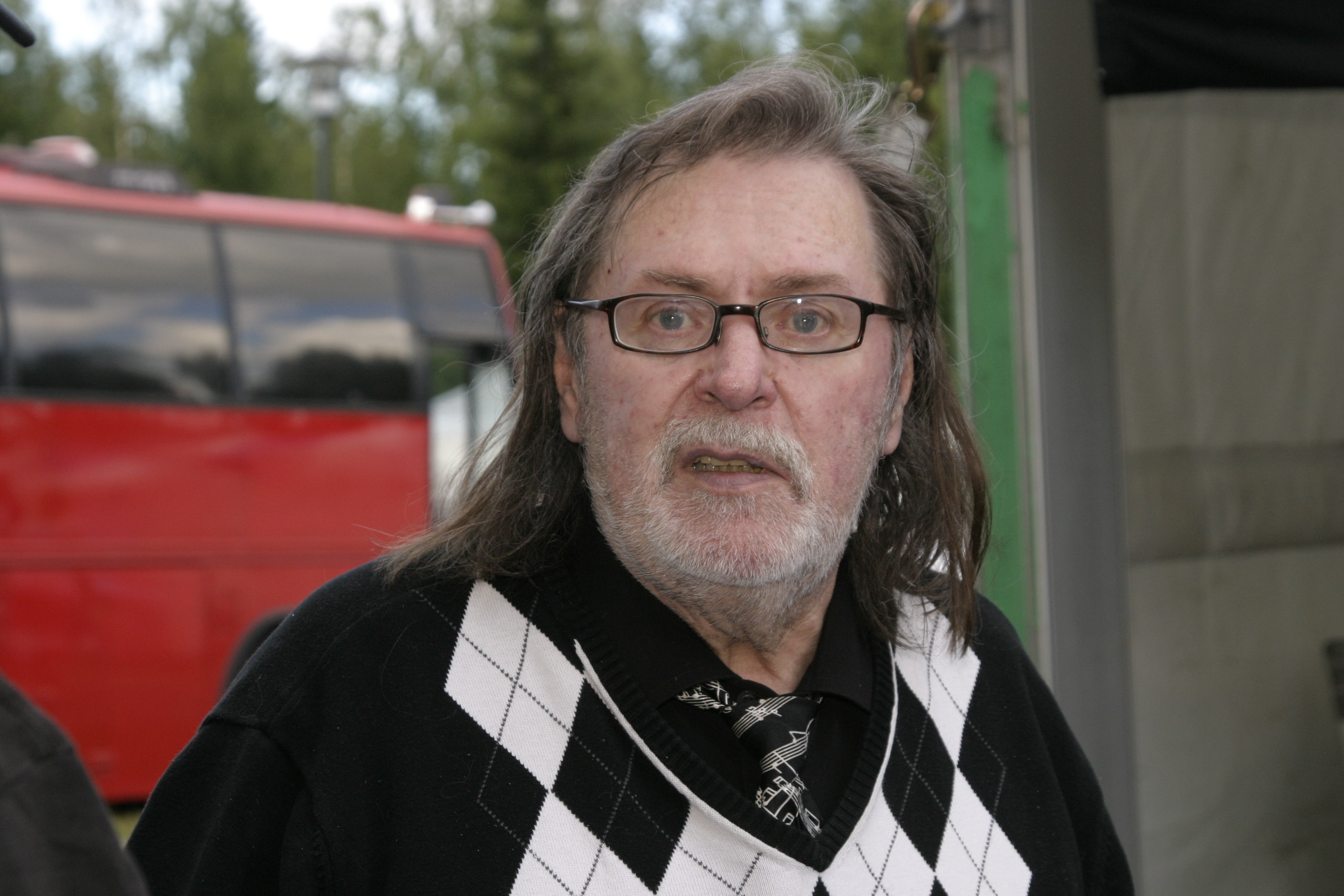 Lasse Lintala, Kiuruvesi July 18, 2008